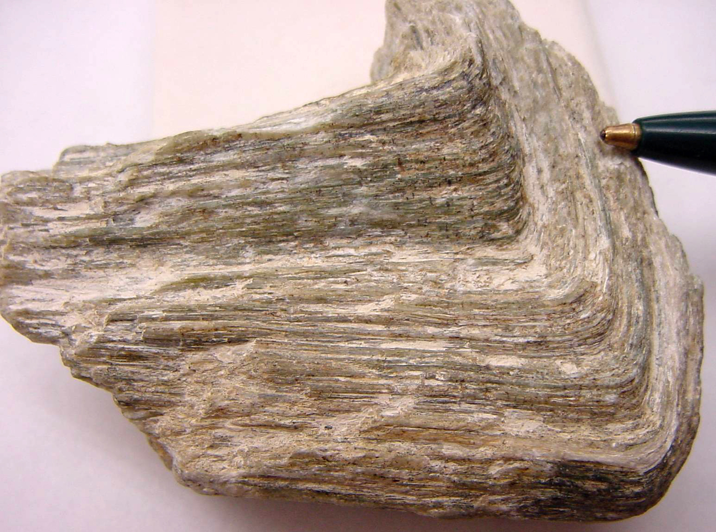 Enstatit (pen for scale) - Mineral collection of Brigham Young University Department of Geology, Provo, Utah.